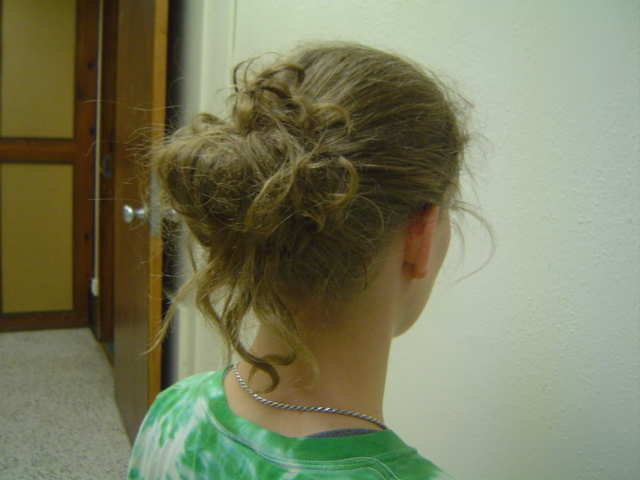 A woman with a loose bun (USA).